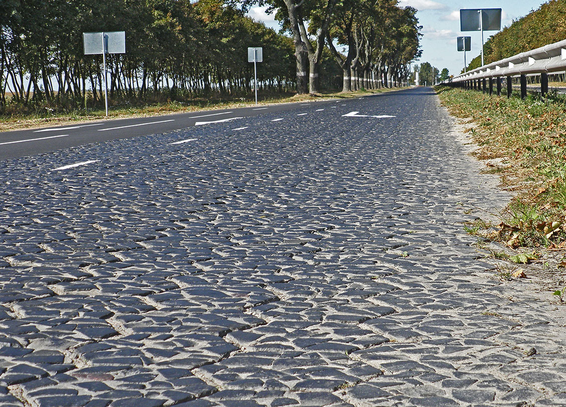 trylinka pavement in Stolin, Belarus